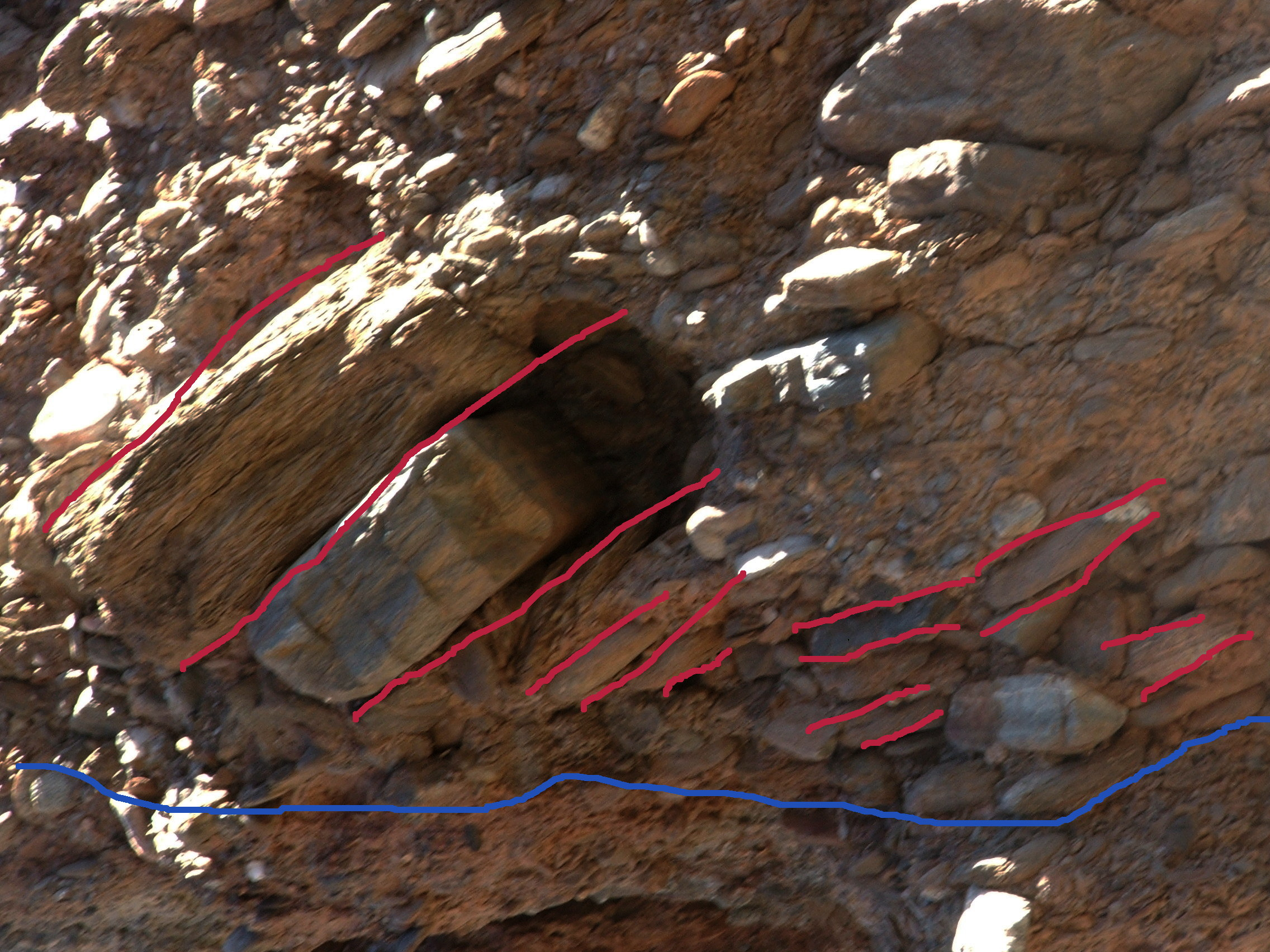 An imbricated fabric from debrites of the Rambla de la Sierra, Spain. Red lines mark the edges of clasts, at an angle to the bed surface (blue)